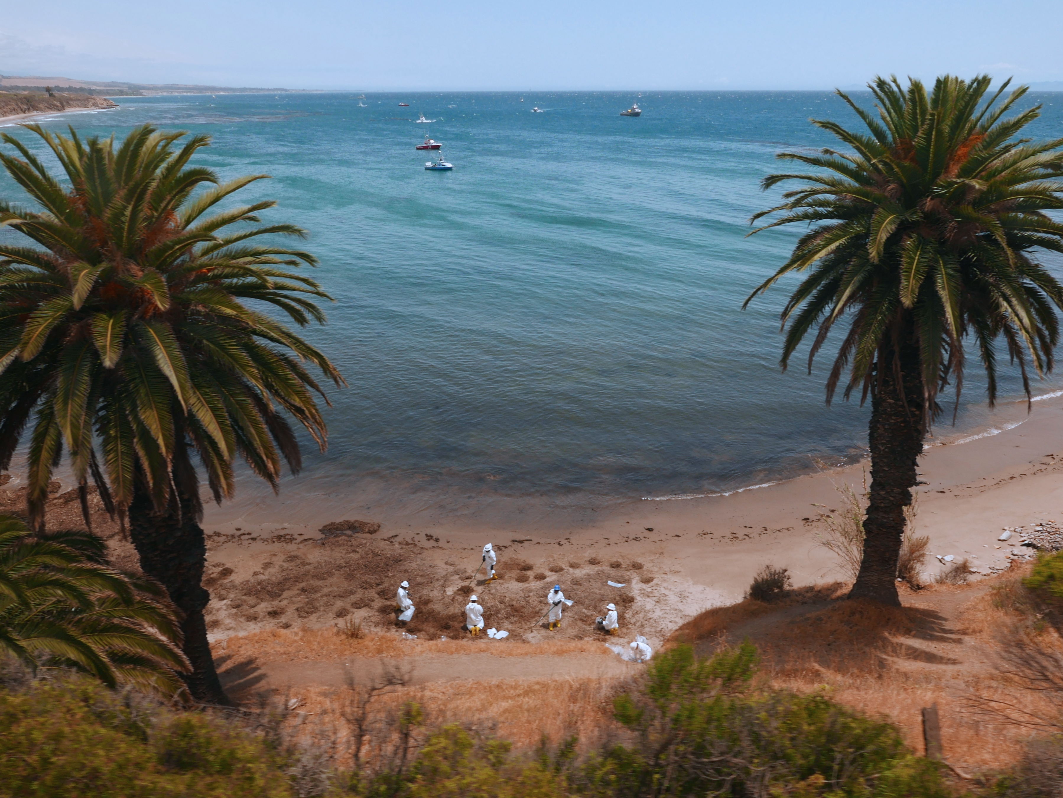 Refugio oil spill cleanup on May 22, 2015, two days after the spill. Seen from the Amtrak Coast Starlight train in Santa Barbara County.